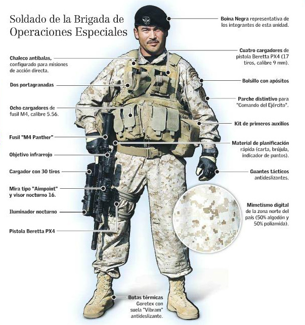 Comando Paracaidista BOE LAUTARO ECH